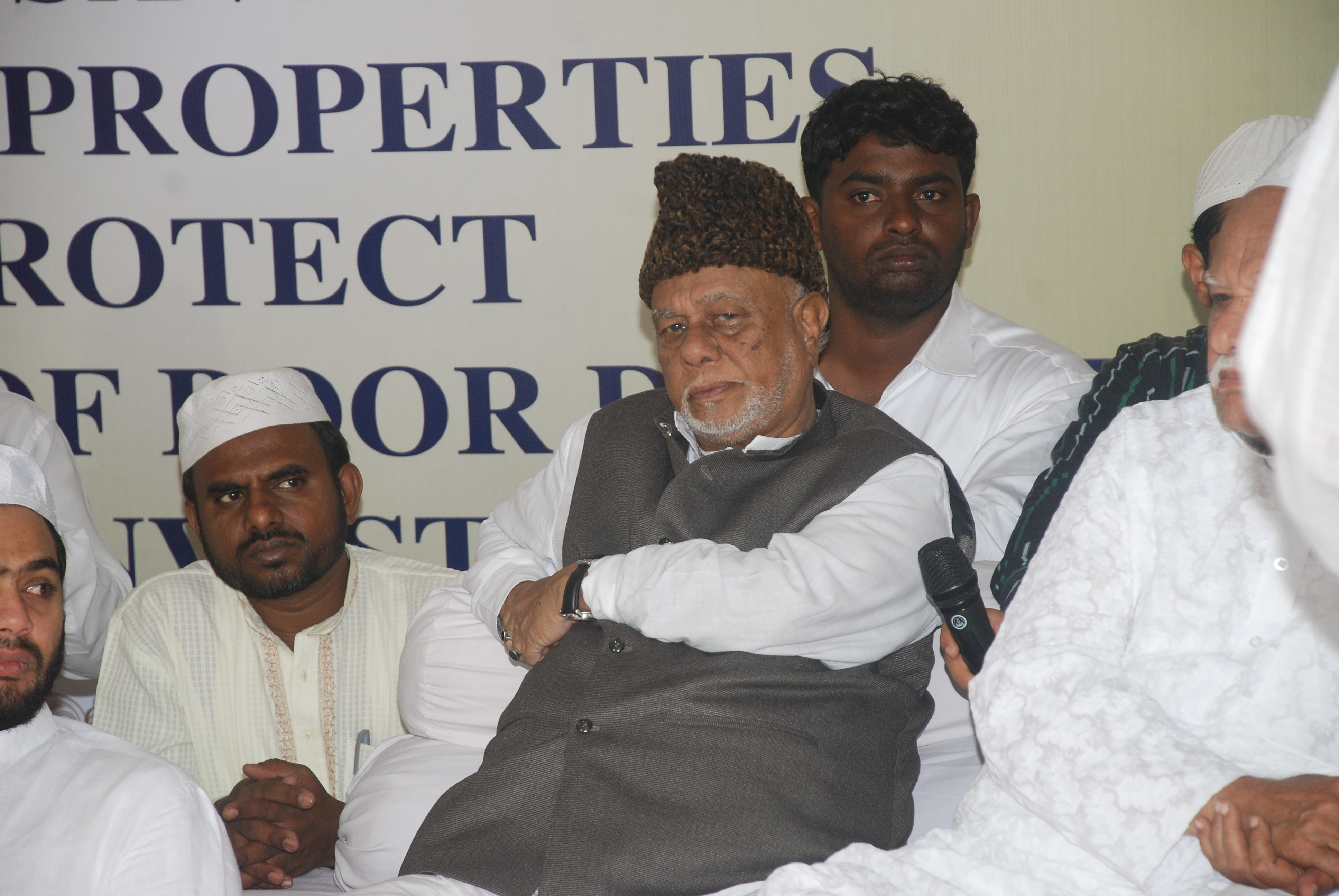 Shri CK Jaffer Sharief on Strike to save Amanth Bank. in Banglore